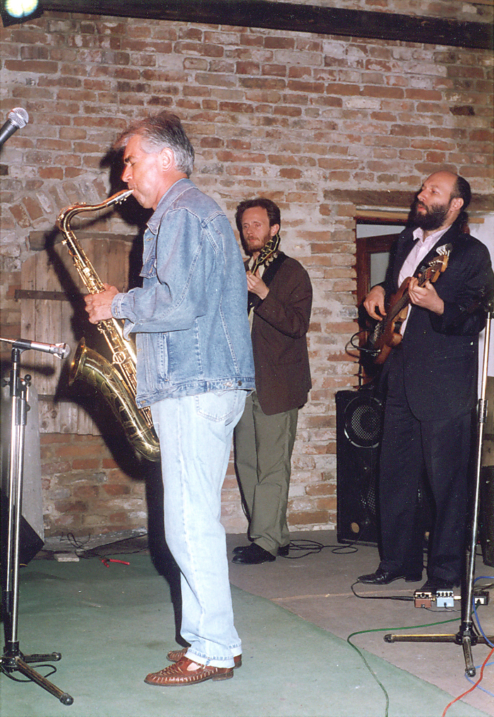 Jovan Maljoković (saxophone) and Slaviša Pavlović - Stanley (bass guitar)